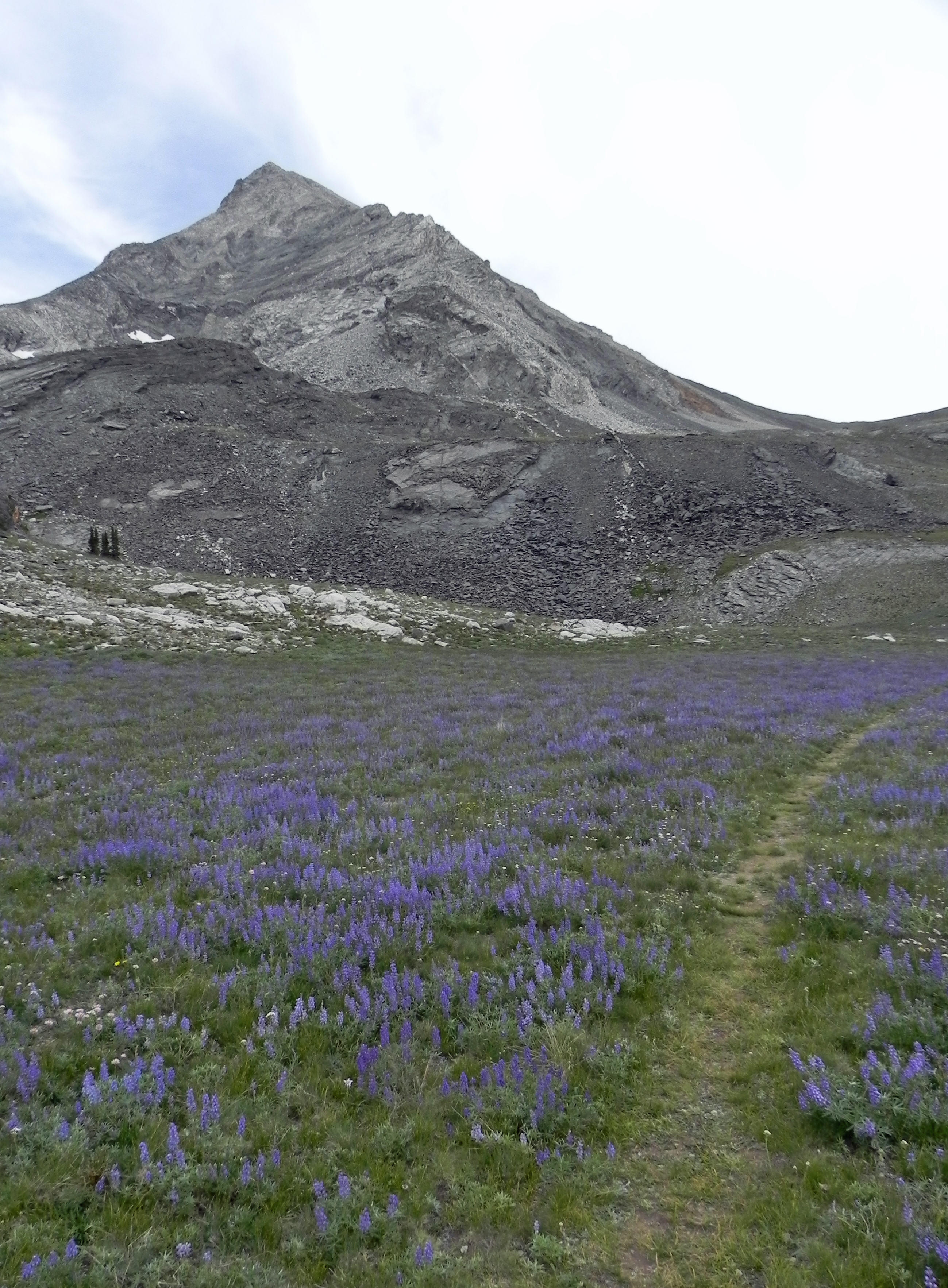 Hyndman Peak, Idaho from the route to the summit